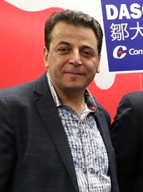 MP Ziad Aboultaif (cropped)